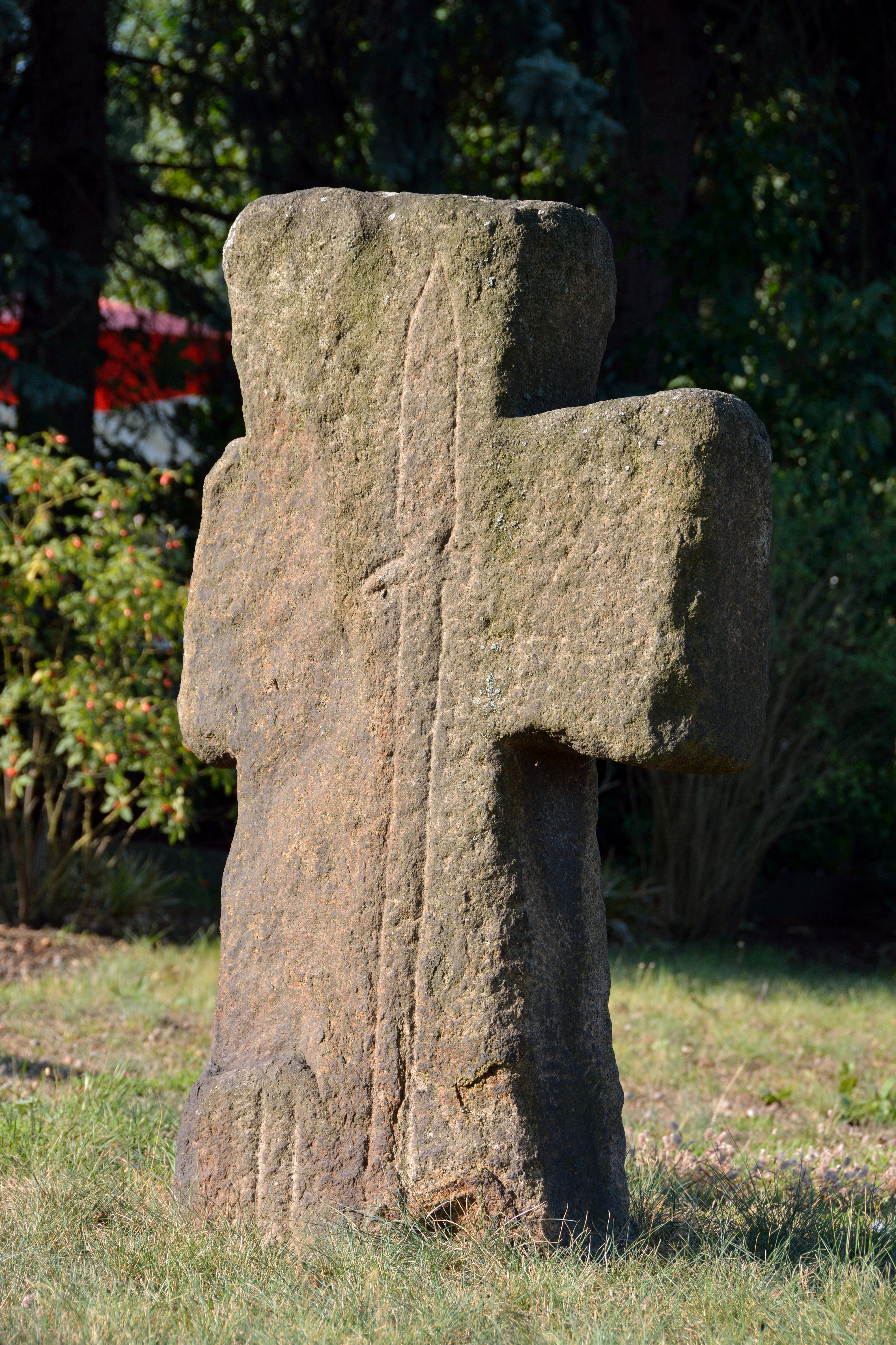 Impressionen vom Sühnekreuz in Bärwalde TransLausitz 2015 um Boxberg/O.L. This photo was taken during the project transLAUSITZ in August 2015. More mediafiles of that project are provided within the category transLAUSITZ 2015. The making of this document was supported by the Community-Budget of Wikimedia Germany.